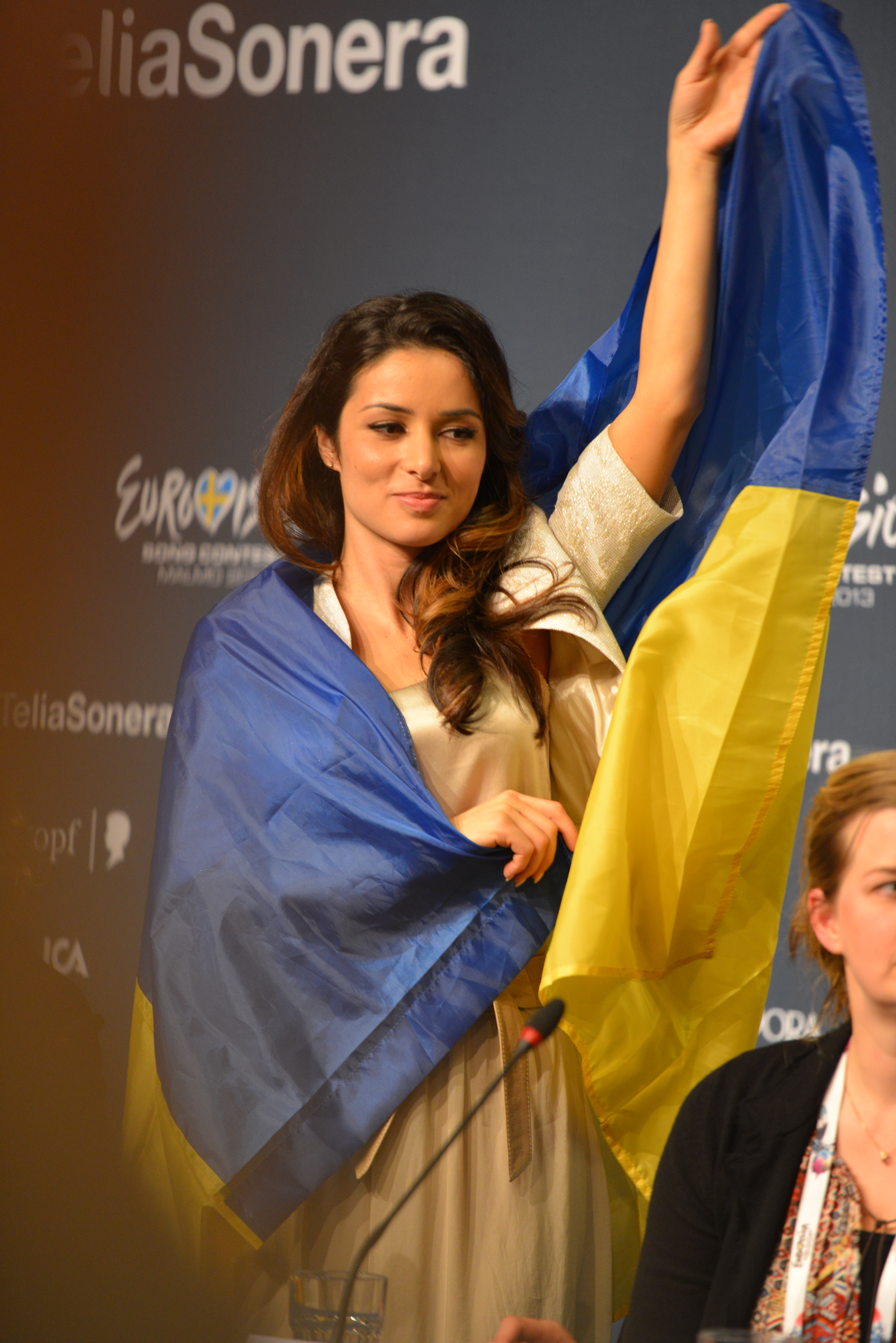 Zlata Ognevich at a press conference during the Eurovision Song Contest 2013 Malmö. (Help translate this text)